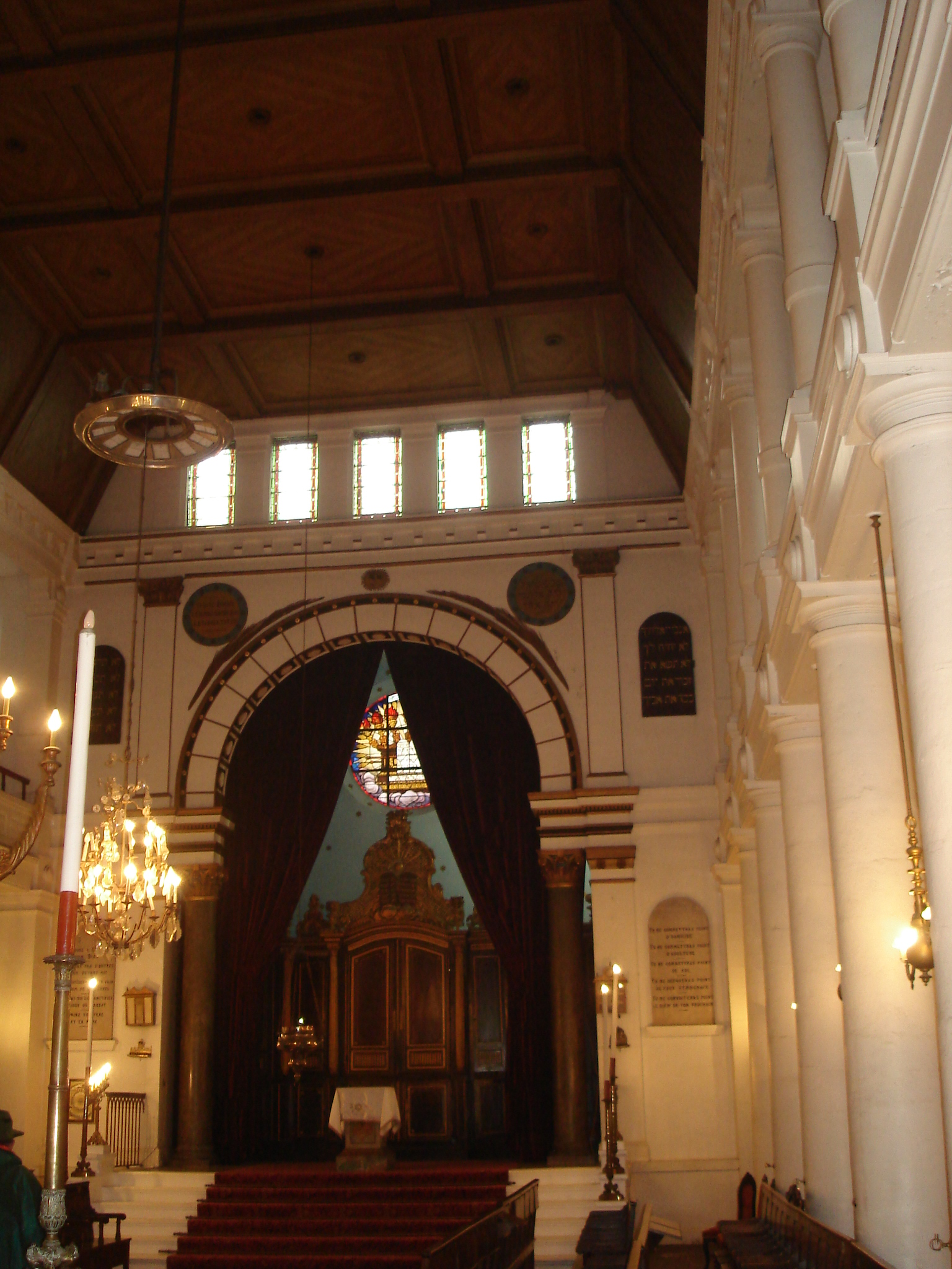 Synagogue of Bayonne (France) - Inside.